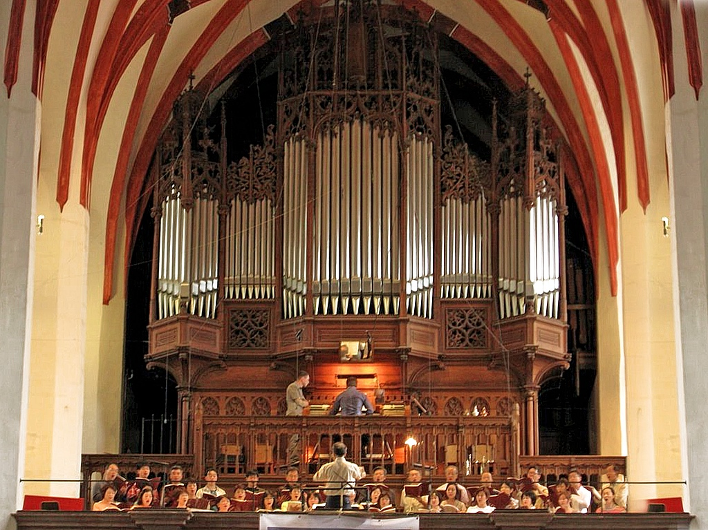 Thomaskirche Choir